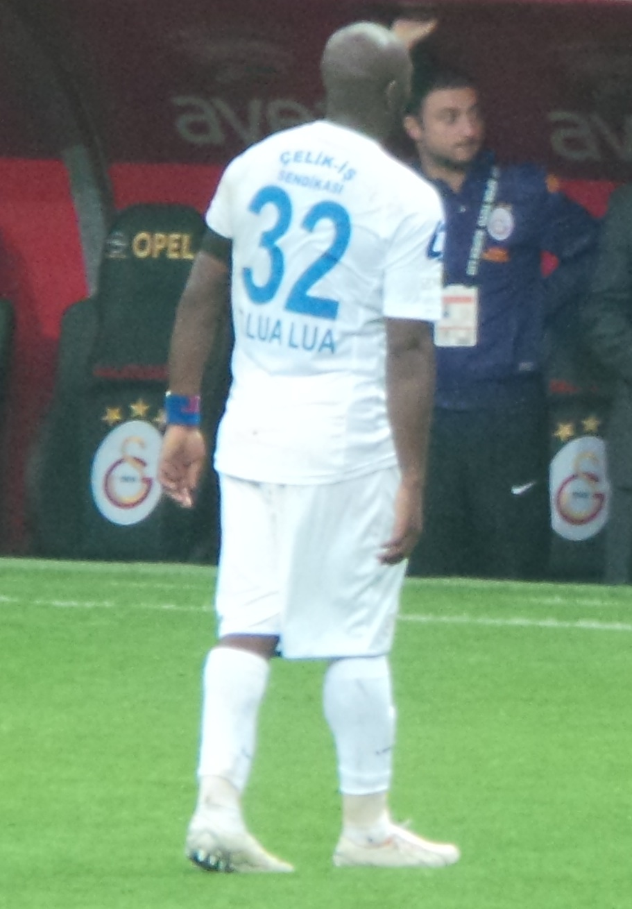 Lua Lua with his nr. 32